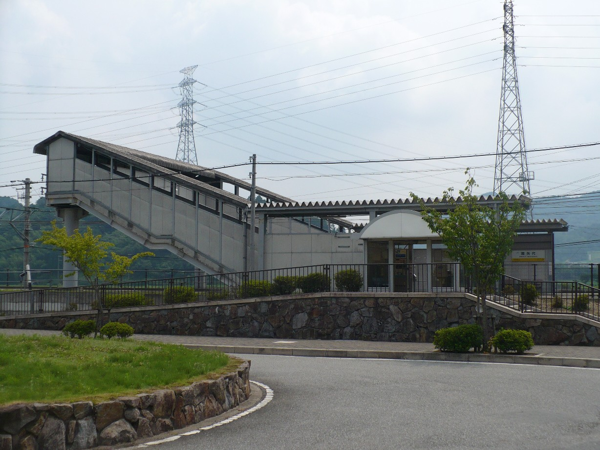 A station building at MinamiYashiro station of JR West Fukuchiyama line, Sasayama city Hyogo prefecture Japan